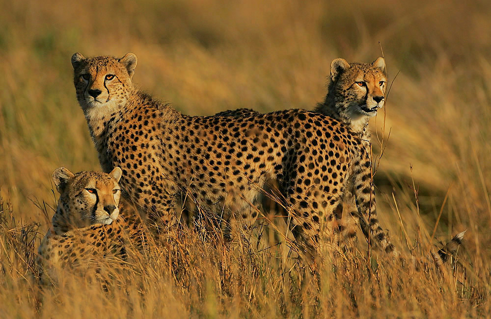 First light would seem a good time to hunt in the Mara as it is still cool with less risk of over-heating on the chase however the presence of significant numbers of lions and spotted hyenas make this a risky time for cheetahs to hunt. Image taken about one hour after sunrise in the western Mara, Kenya.